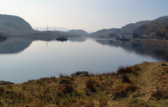 Tanygrisiau reservoir This southsouthwesterly view includes the power station building.